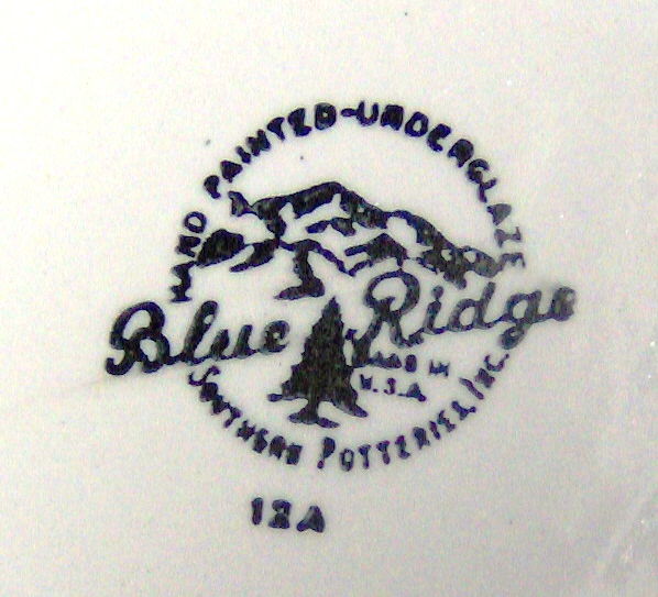 An identifying stamp for Blue Ridge china, manufactured in Erwin, Tennessee, USA between the 1930s and 1950s. Special thanks to Highway 411S Antiques in Maryville, Tennessee for providing me with these examples.